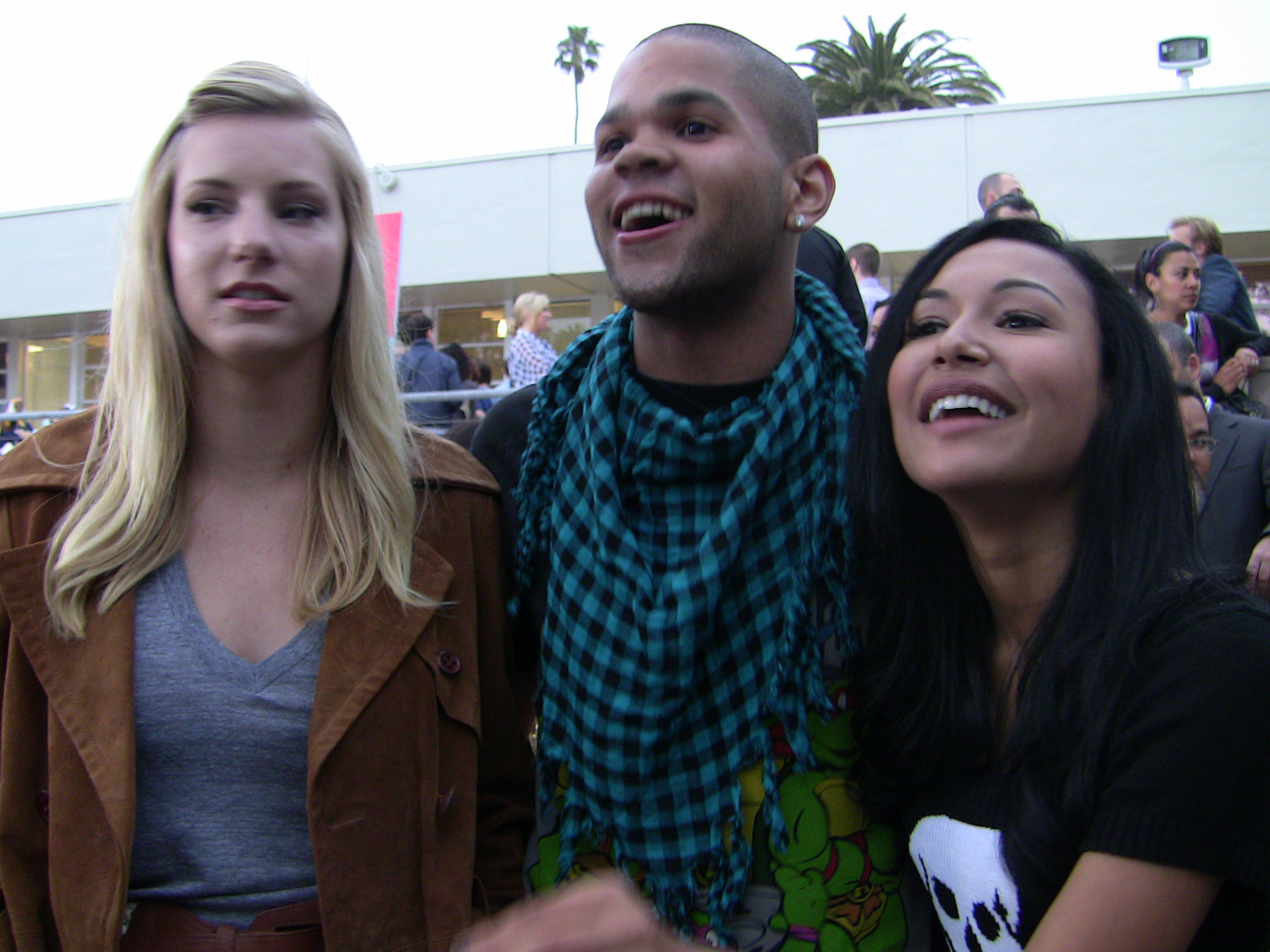 Heather Morris, Dijon Talton and Naya Rivera at the premiere party of TV series Glee, Santa Monica, California.